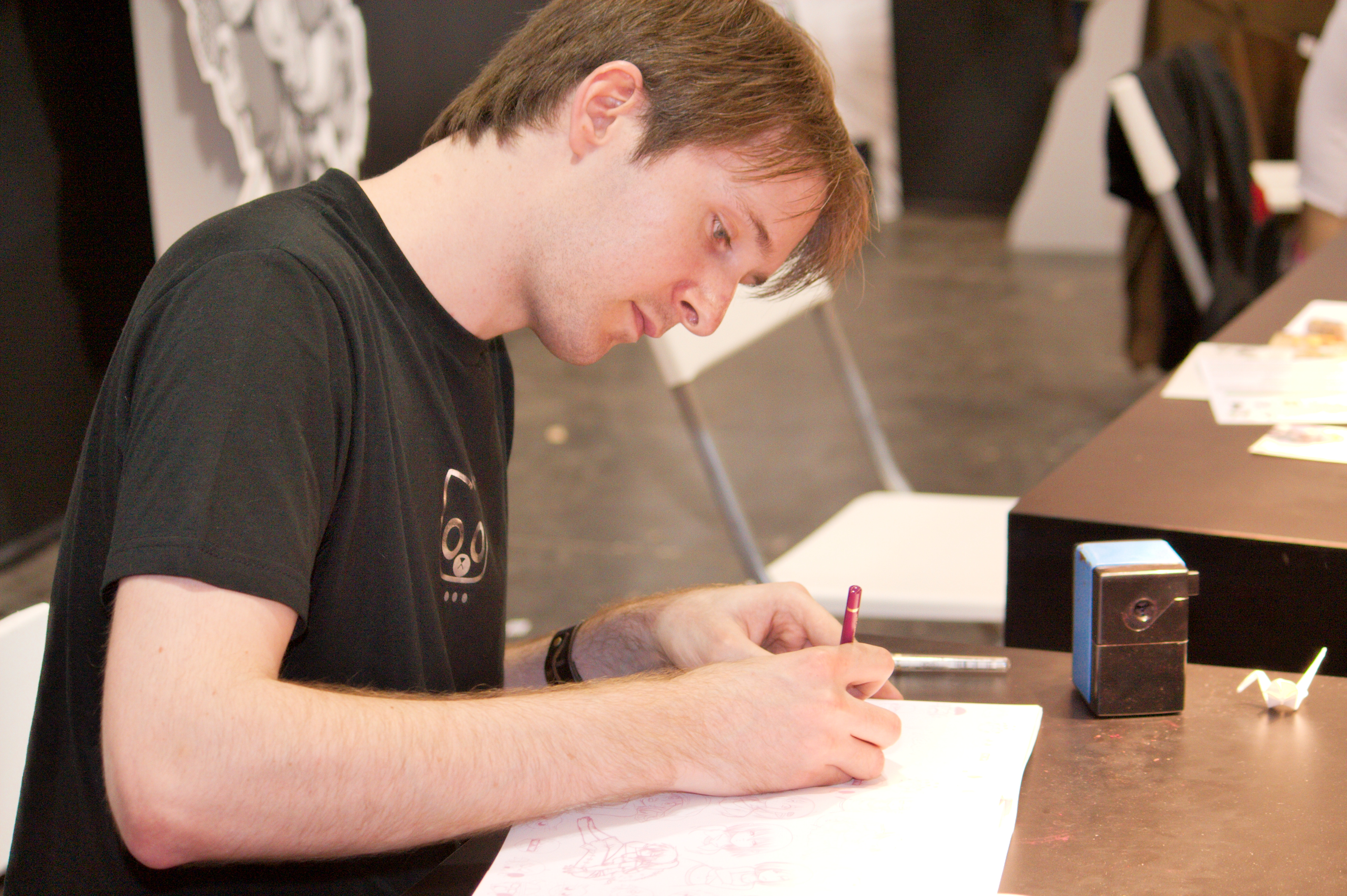 Autograph session with Souillon at Japan Expo 2008 (Paris, France).